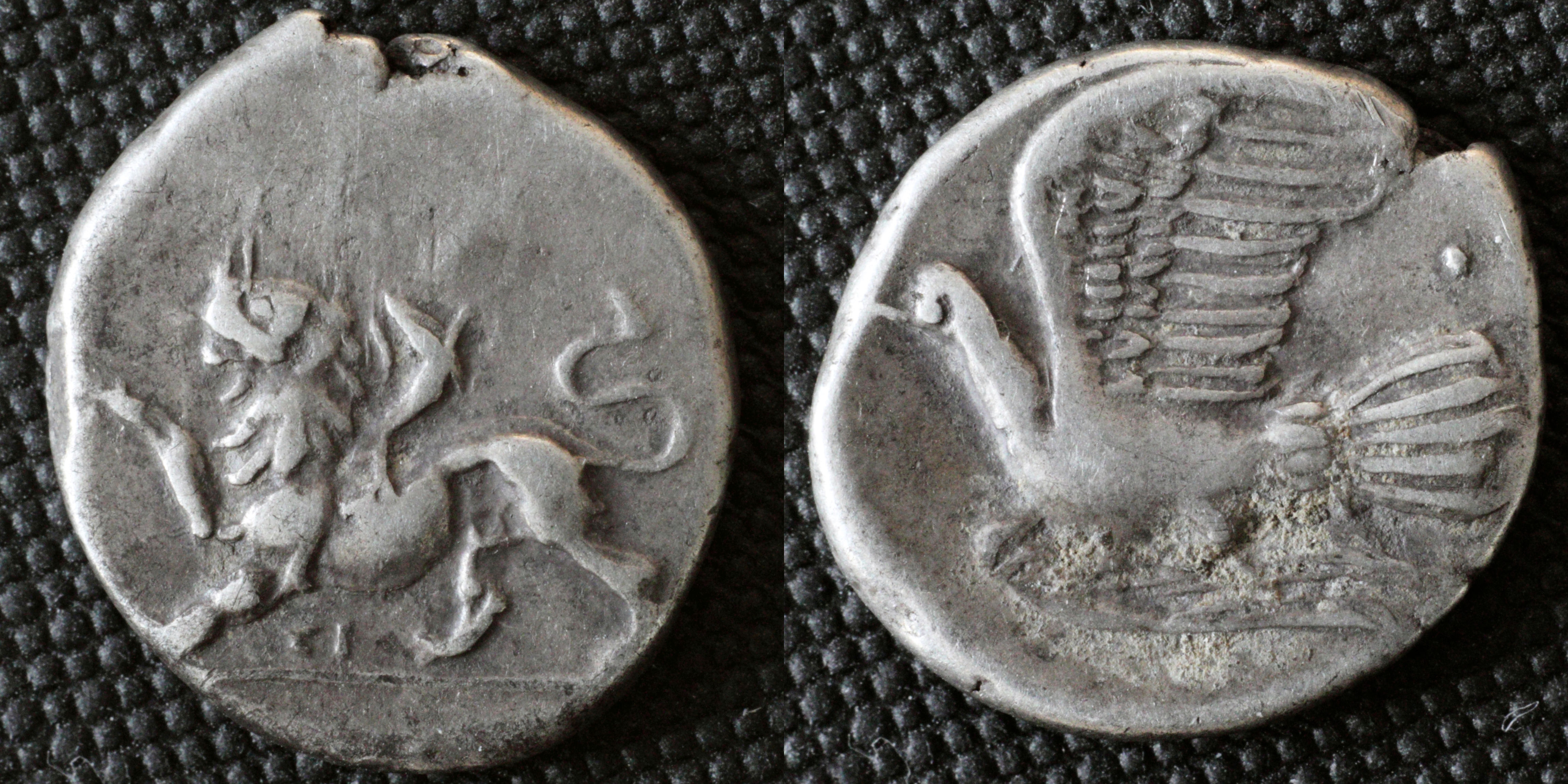 Sikyon - AR hemidrachm 360-330 BC chimera walking left ΣI dove flying left • BMC 124; Sear sg2774; SNG Cop. 64/65